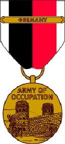 Army of Occupation Medal